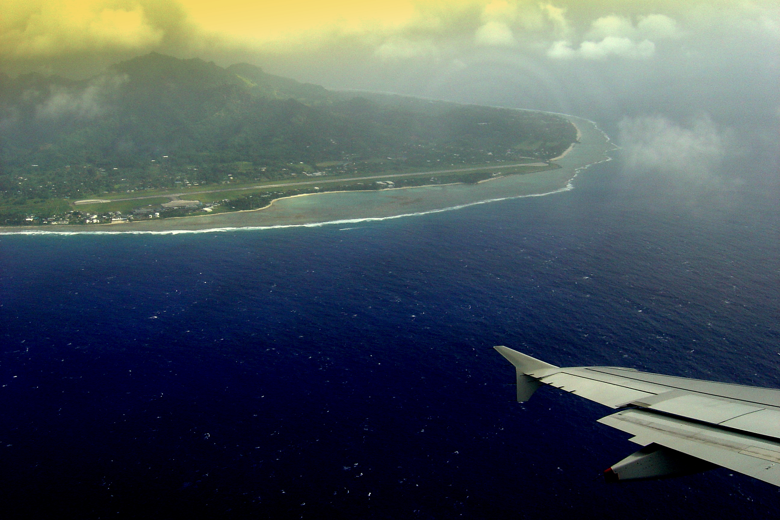 View of Rarotonga Airport from an outbound flight